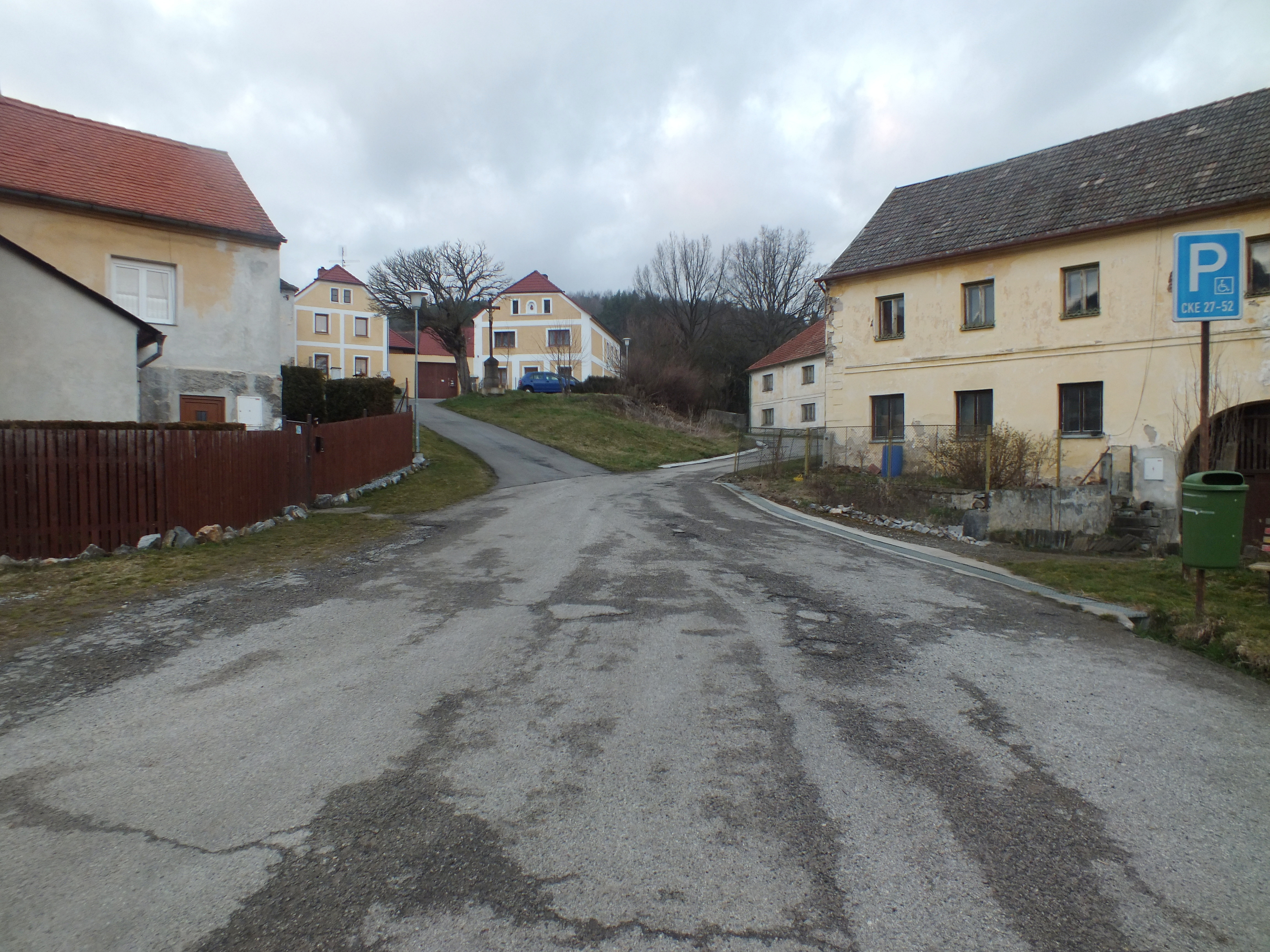 The square in Staré Dobrkovice